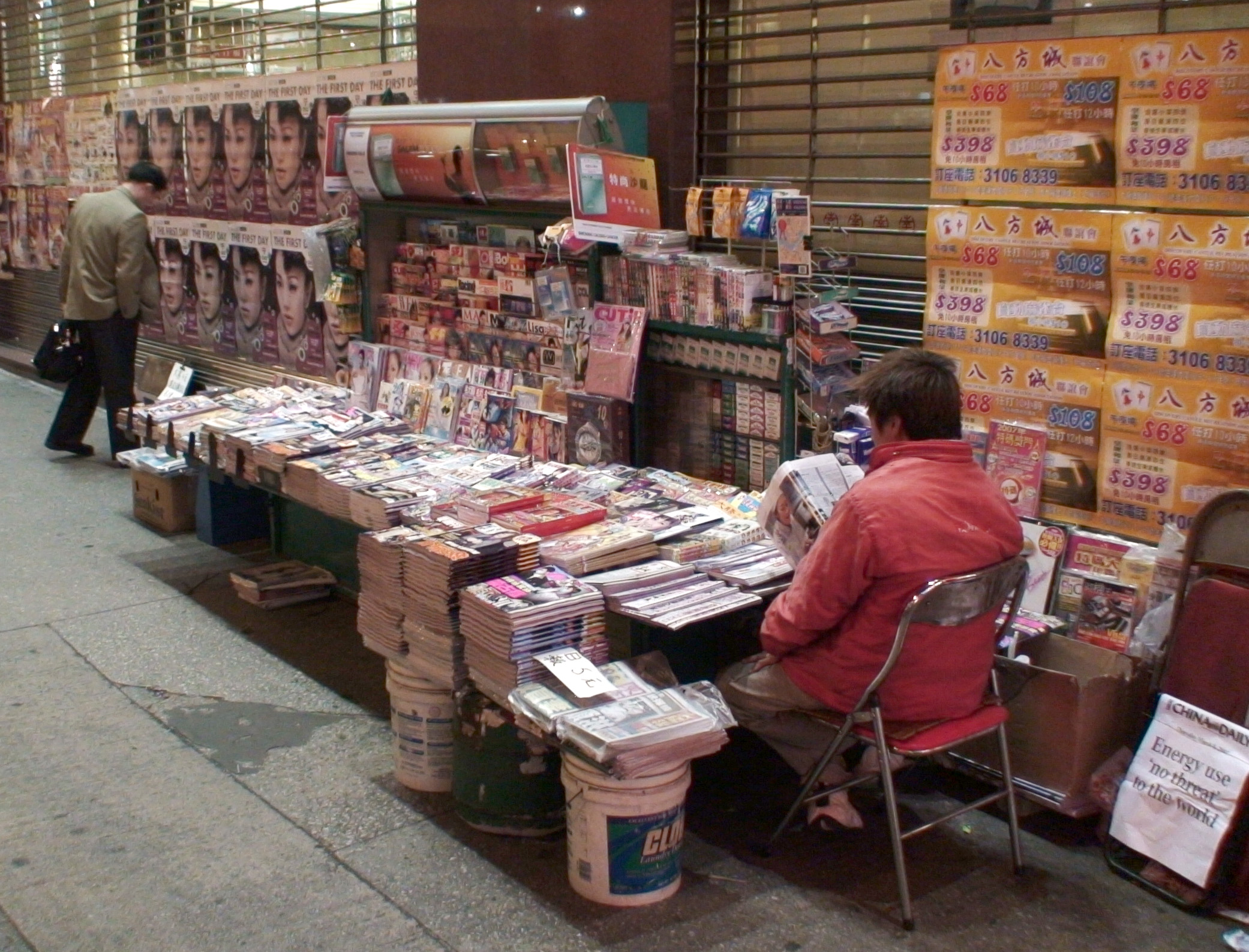 A local version of Newsstand (zh-yue:報紙檔) in Yau Ma Tei , Hong Kong